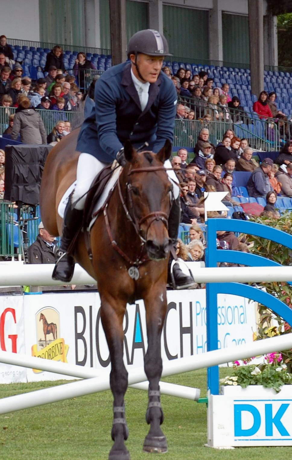 Russian rider Vladimir Tuganov with Carvin, 1st qualifier to the German show jumping derby in Hamburg 2012 (CSI 3*)